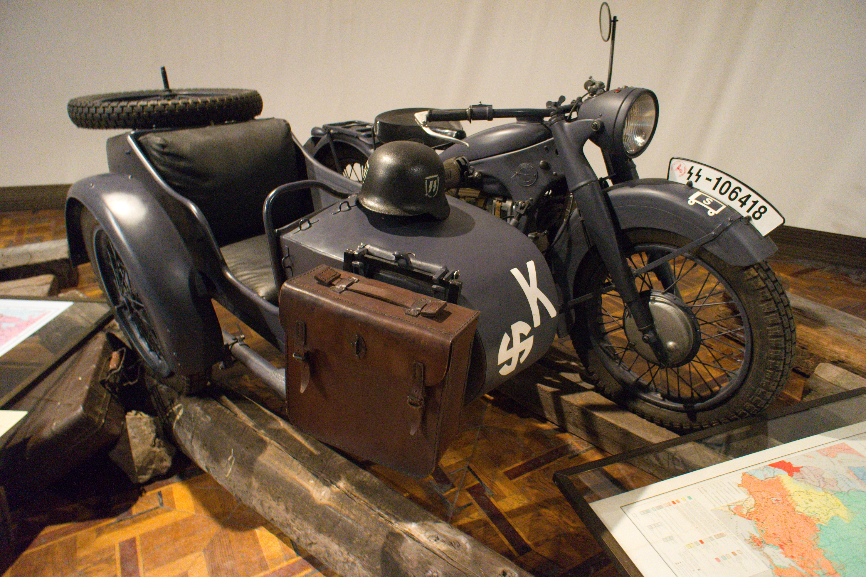 Captured "SS Viking" motorbike.